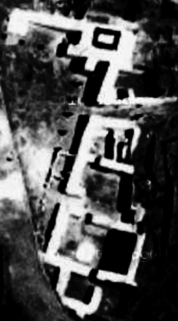 The Royal Palace G